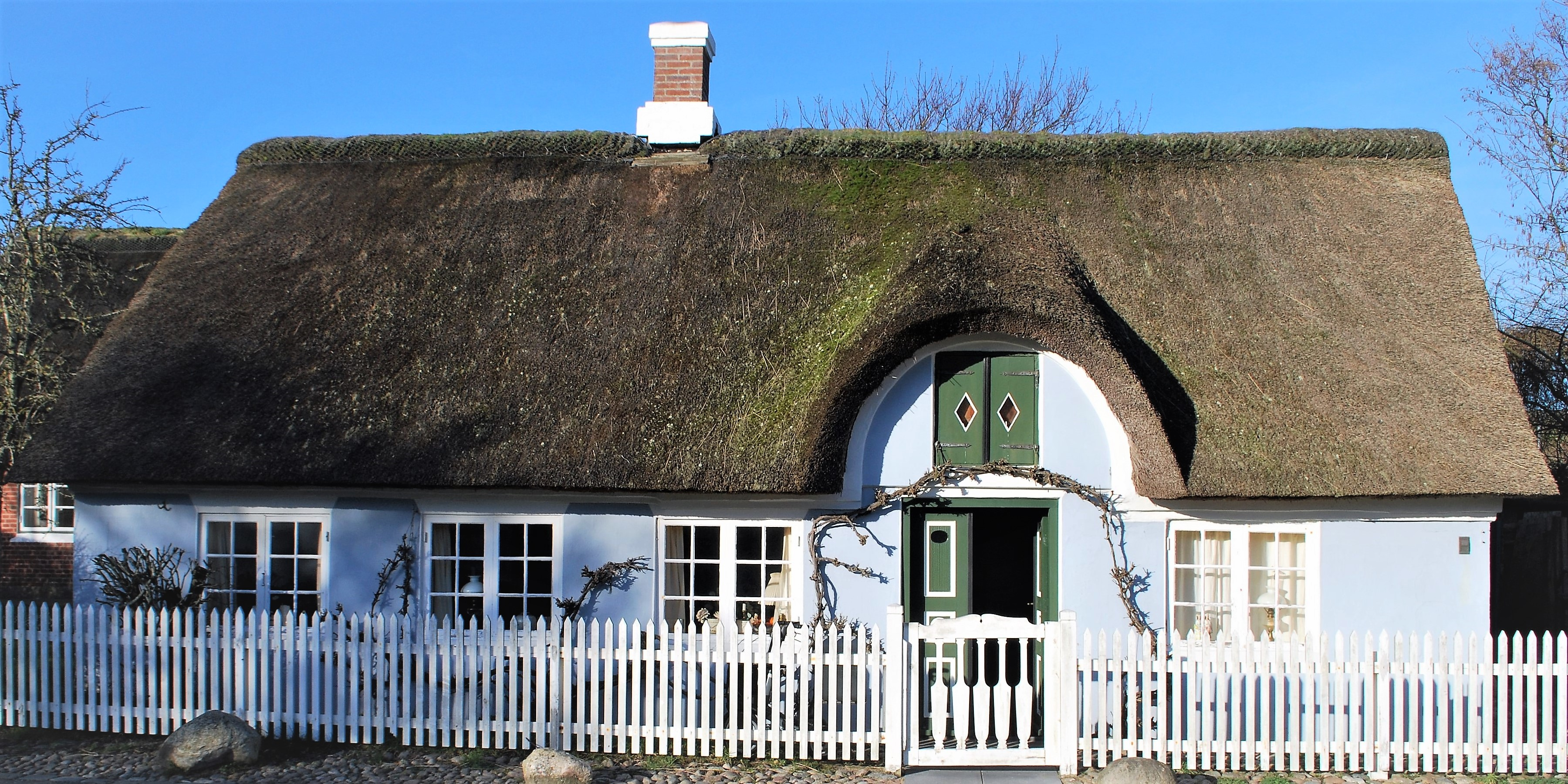 Sønderho, Fanø, Denmark